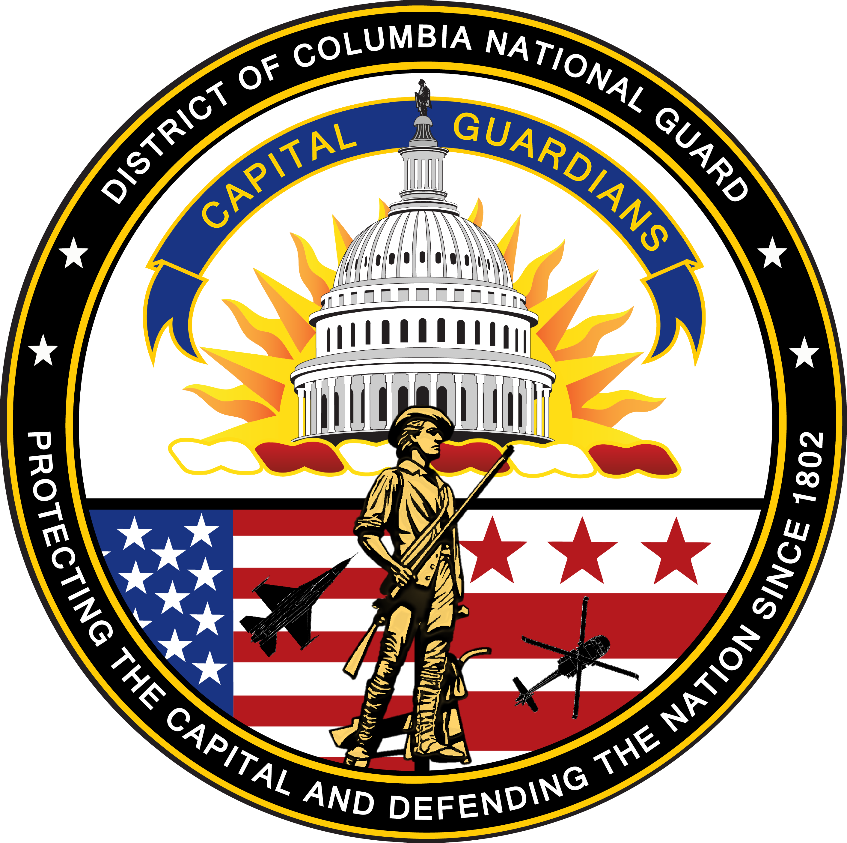 The unofficial seal of the District of Columbia National Guard which represents the support the organization has provided to the Capital of the United States and the nation since 1802.